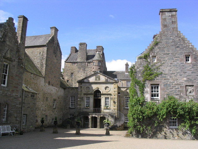 Entrance to Murthly Castle Murthly Estate lies in the historic heart of Perthshire in Scotland, just a few miles from Dunkeld. A traditional working estate, it is sheltered on the west side by Birnam Hill and overlooks the mighty River Tay.